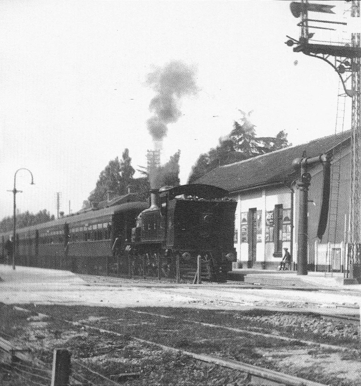 A steam train in Belgrano R station of Central Argentine Railway, before the line was electrified.